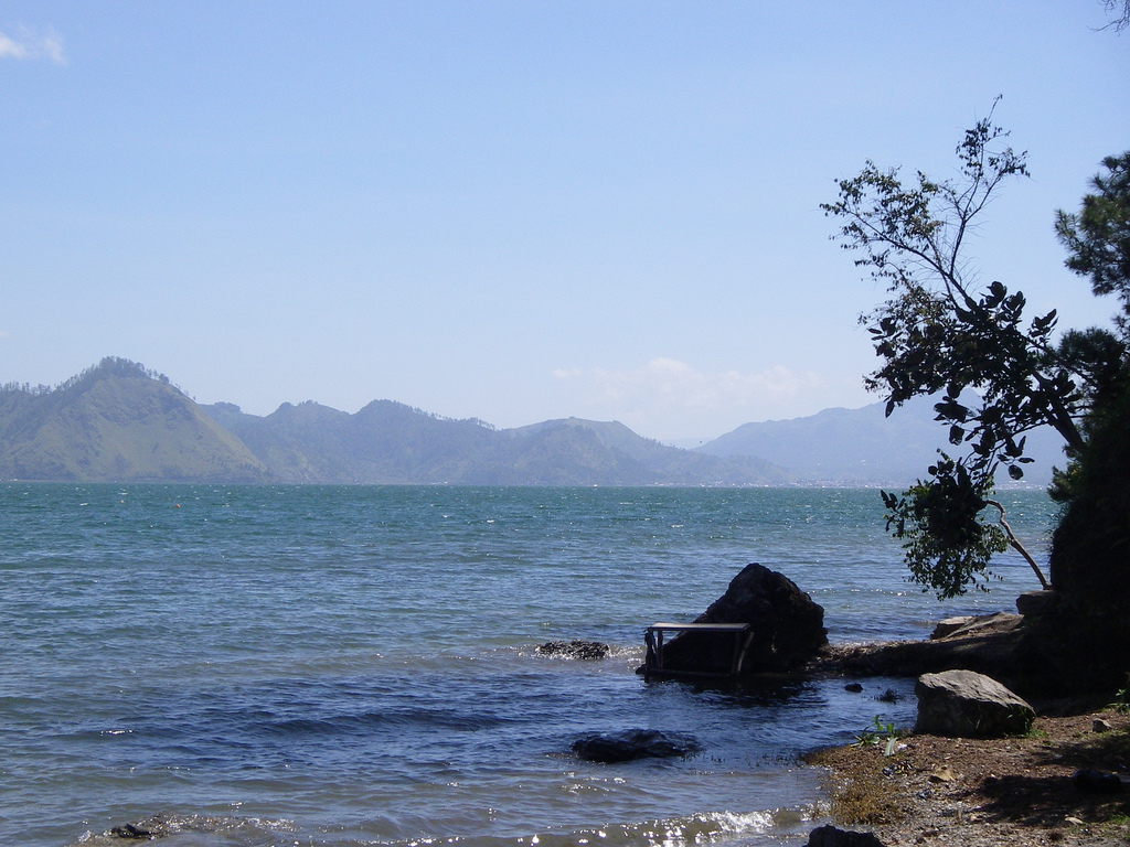 Danau Laut Tawar, Takengon, Aceh Tengah.